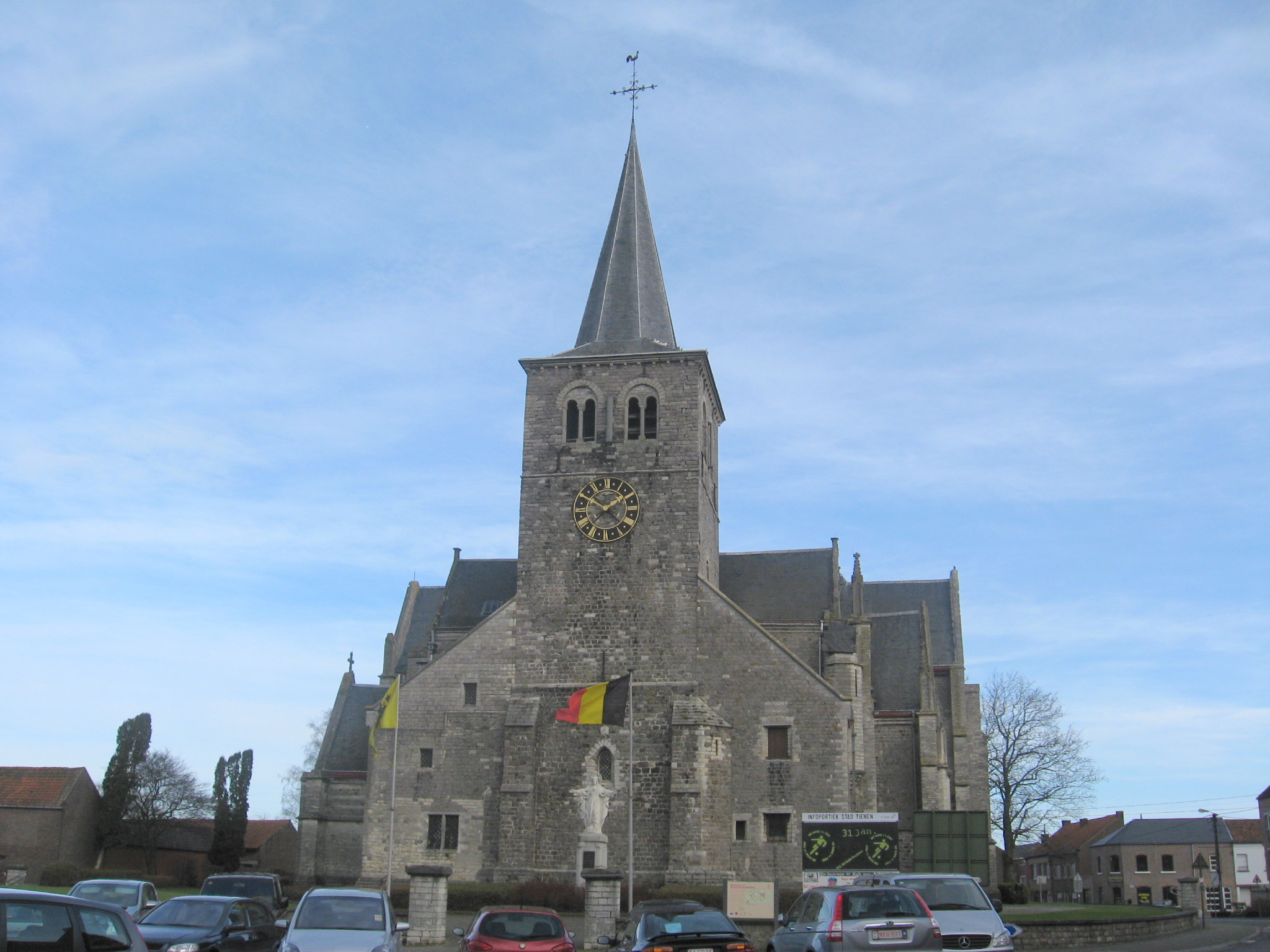 Church of Saint Genevieve in Oplinter, Tienen, Flemish Brabant, Belgium